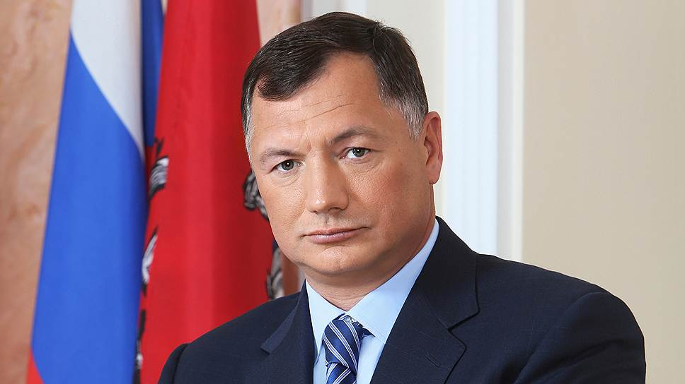 Marat Khusnullin